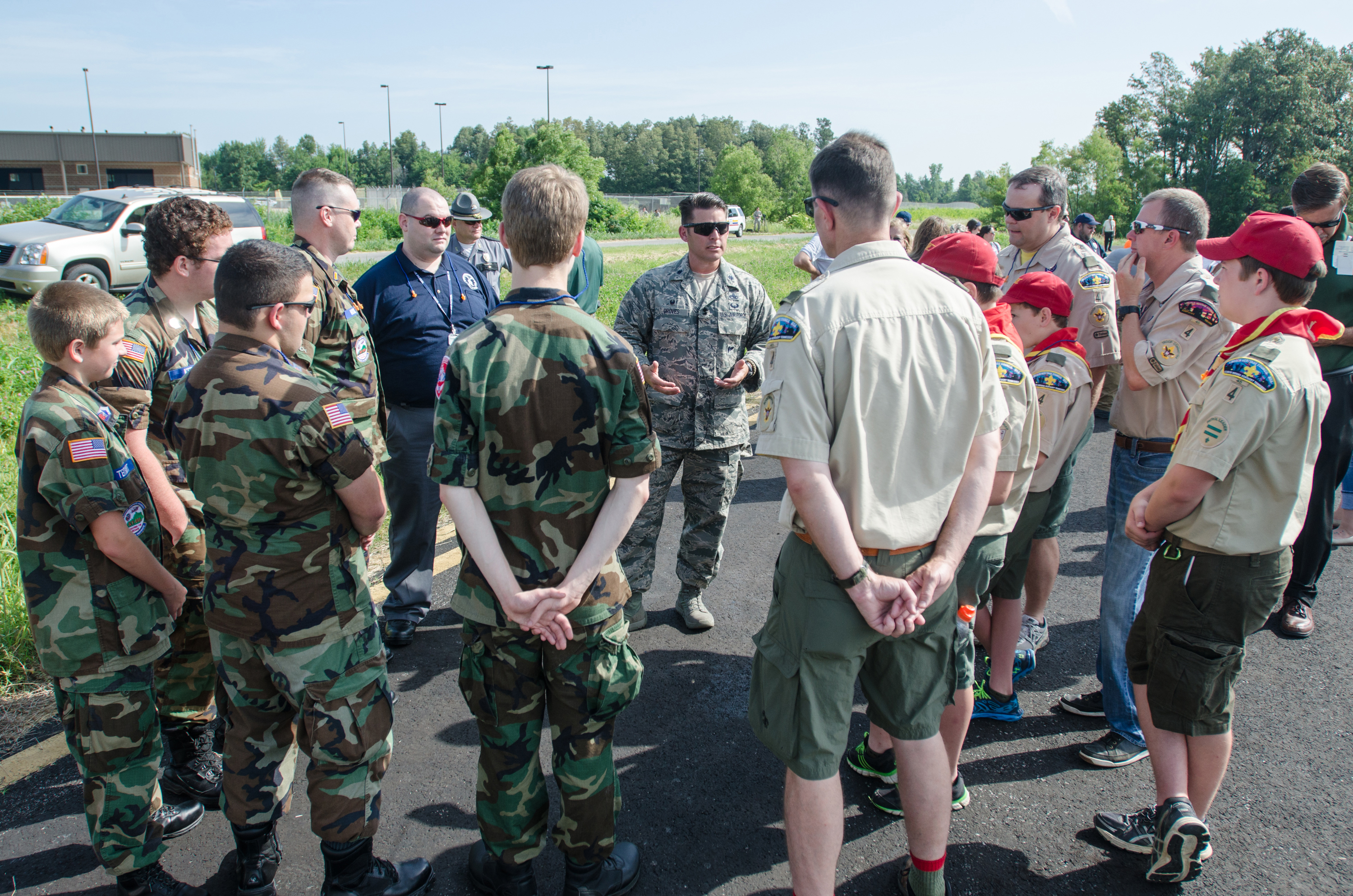 Lt. Col. Ash Groves, commander of the Kentucky Air National Guard’s 123rd Maintenance Squadron, briefs members of the Civil Air Patrol Paducah Composite Squadron, Great Lakes Region Kentucky 011, and Boy Scout Troop 4, about the emergency-response capabilities of the 123rd Contingency Response Group at Barkley Regional Airport in Paducah, Ky., on June 18, 2014. The 123rd CRG is joining with the U.S. Army’s 688th Rapid Port Opening Element to operate a Joint Task Force-Port Opening during Capstone '14, a homeland earthquake-response exercise at Fort Campbell, Ky., from June 16 to 19, 2014. (U.S. Air National Guard photo by Master Sgt. Phil Speck)